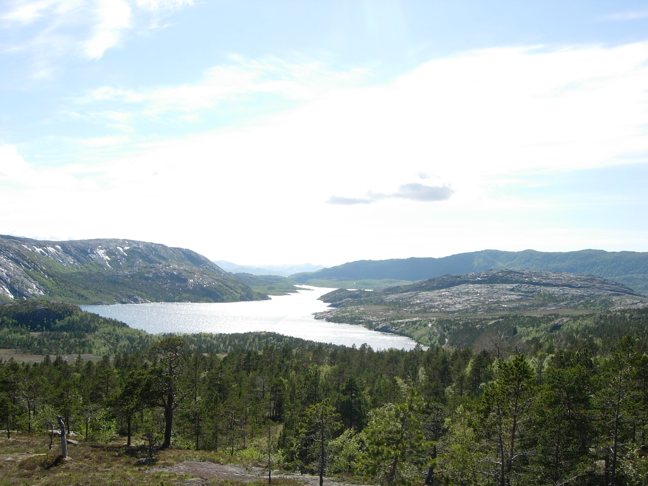 Vatnvatnet in Bodø, Norway